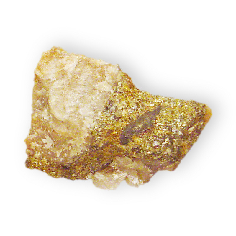 These mineral images are free to use how you wish.